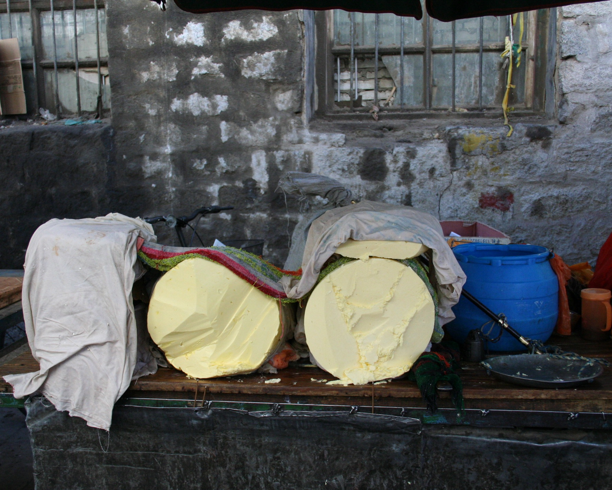 Yak butter in Lhasa street shop